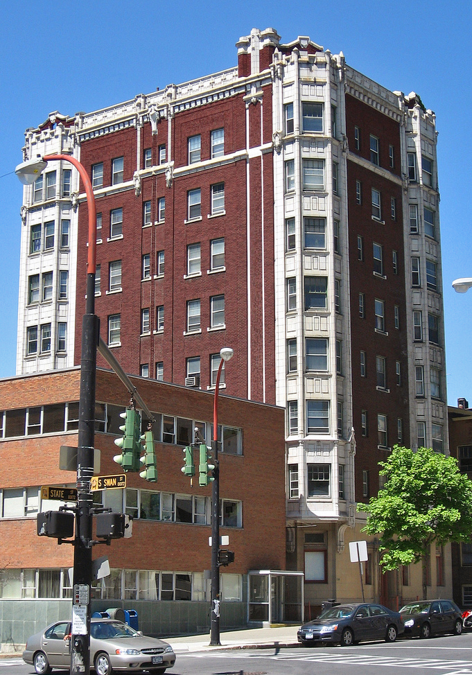 Apartment building on State St in Albany, NY. Was moved to current location from a block away to construct State Office Building